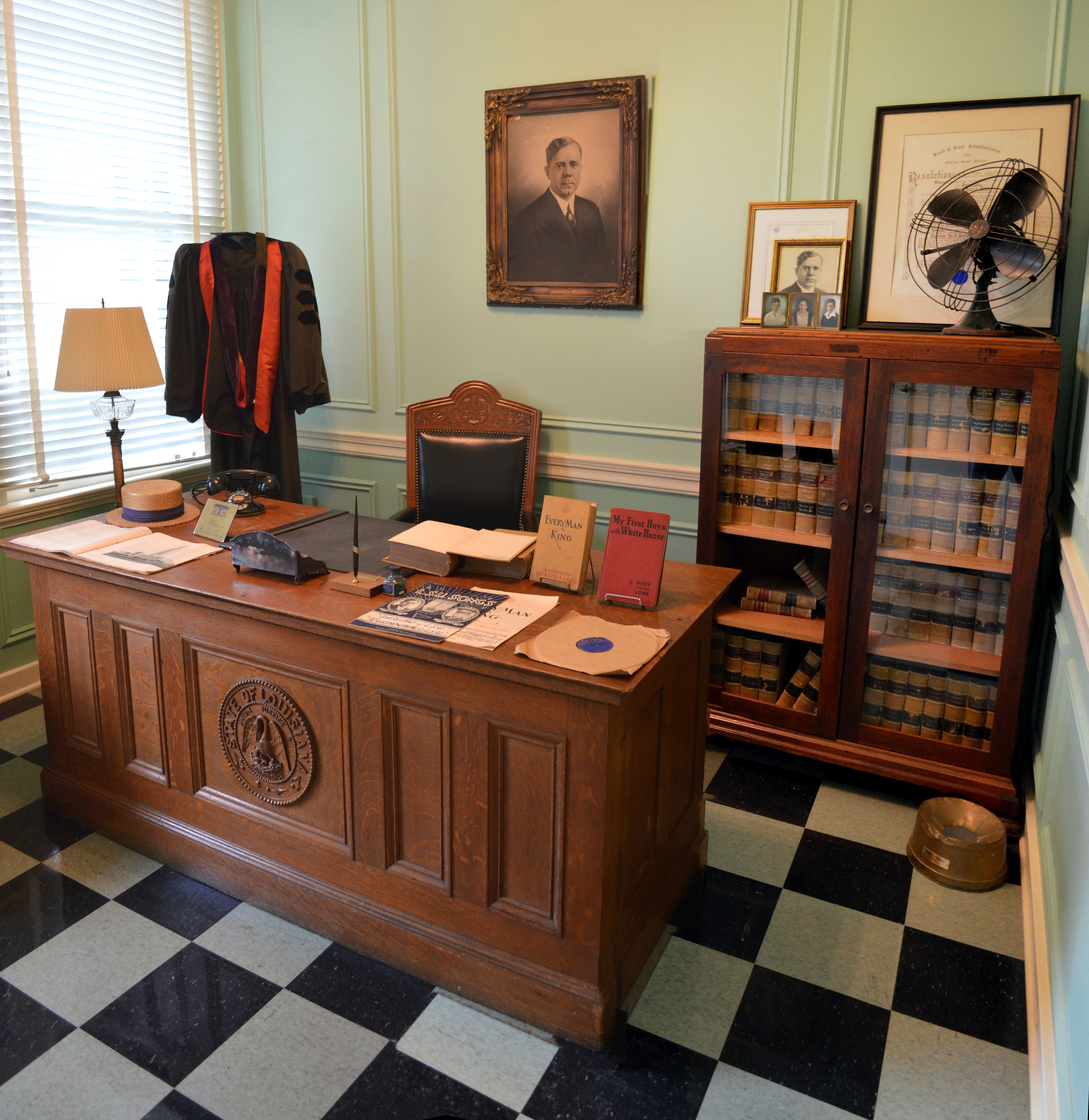 The office of Governor Huey Long at the Old Louisiana Governor's Mansion in Baton Rouge, Louisiana.